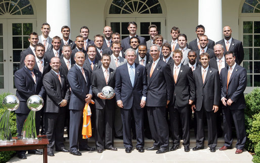 President George W. Bush poses for a photo with the 2007 Major League Soccer Cup Champions, the Houston Dynamo Thursday, June 5, 2008, in the Rose Garden at the White House.